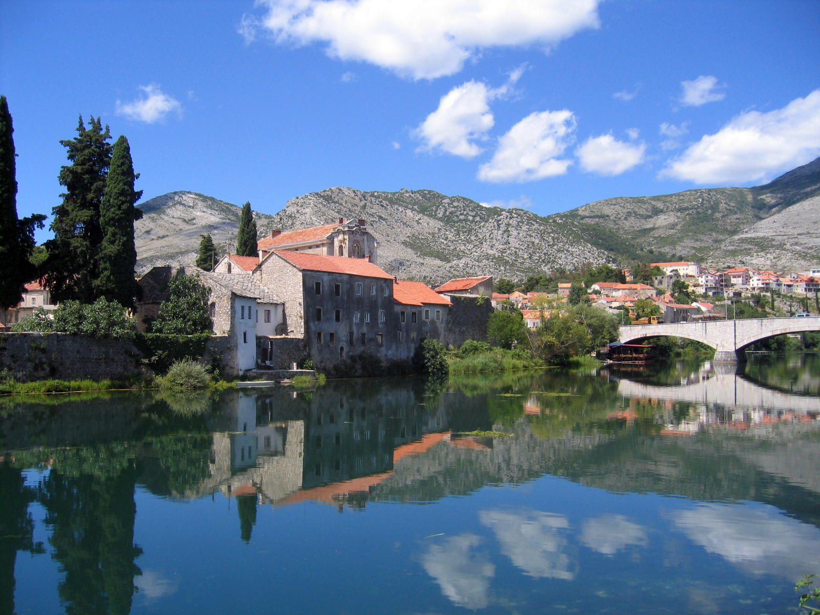 Trebinje, a little town in Herzegovina, south-east Europe, situated on the banks of the Trebisnjica (lost river).